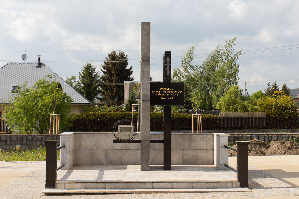 Monument dedicated to victims from Český Malín